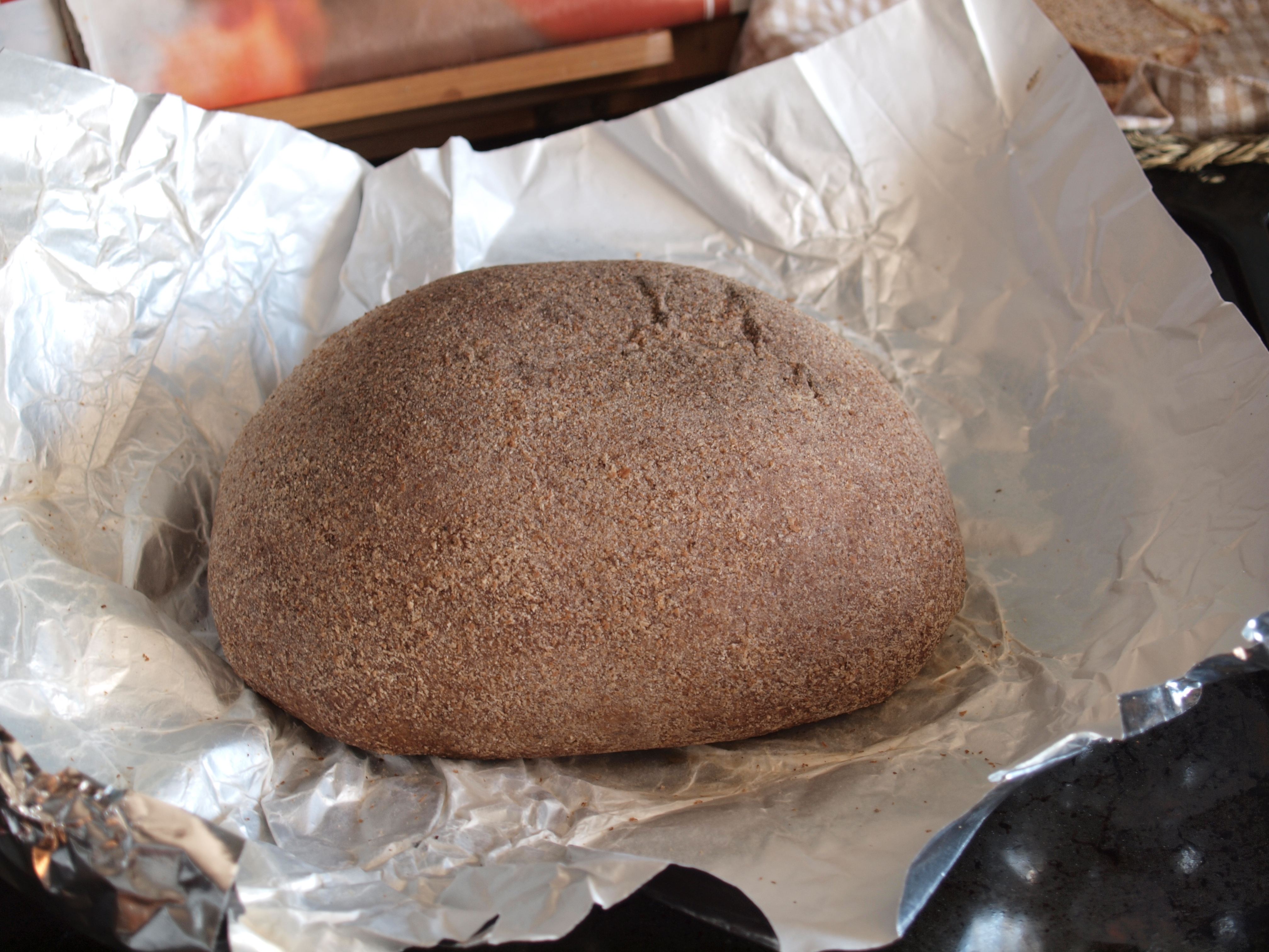 A traditional Finnish kalakukko, made in Savonia, Finland, bought in Helsinki, Finland, prepared to be eaten in Colomars, Alpes-Maritimes, France.